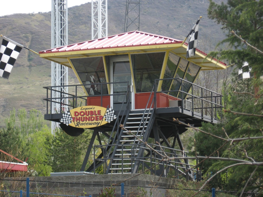 Double Thunder Control Tower at Lagoon in Utah